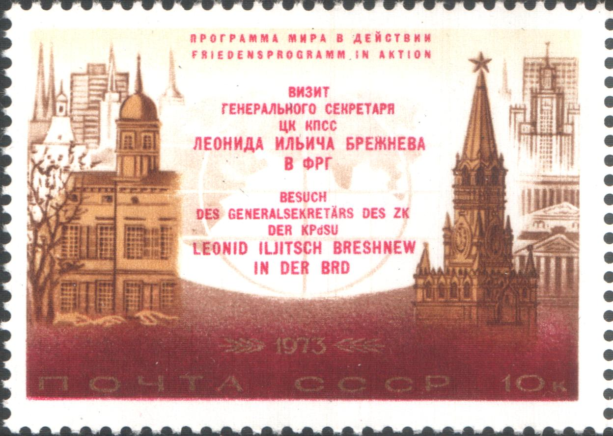 USSR stamp